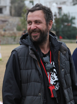 Muğla amatör lig takımlarından Gümüşlükspor, grubunda şampiyon olarak süper amatör lige yükseldi. Şampiyonluk maçın öncesi Gümüşlükspor'un yönetim kurulunda bulunan ünlü oyuncu Nejat İşler,sahayı maça hazırlarken bu fotoğraf çekildi.